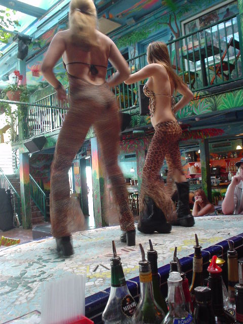 Women dancing at Mango's Bar on Ocean Drive in the South Beach neighborhood of Miami Beach, Florida in 2004. They're dancing directly on the surface of the bar countertop itself; note that right behind them are liquor bottles topped with speed pourer spouts instead of caps, indicating that that's where the bartender mixes drinks.